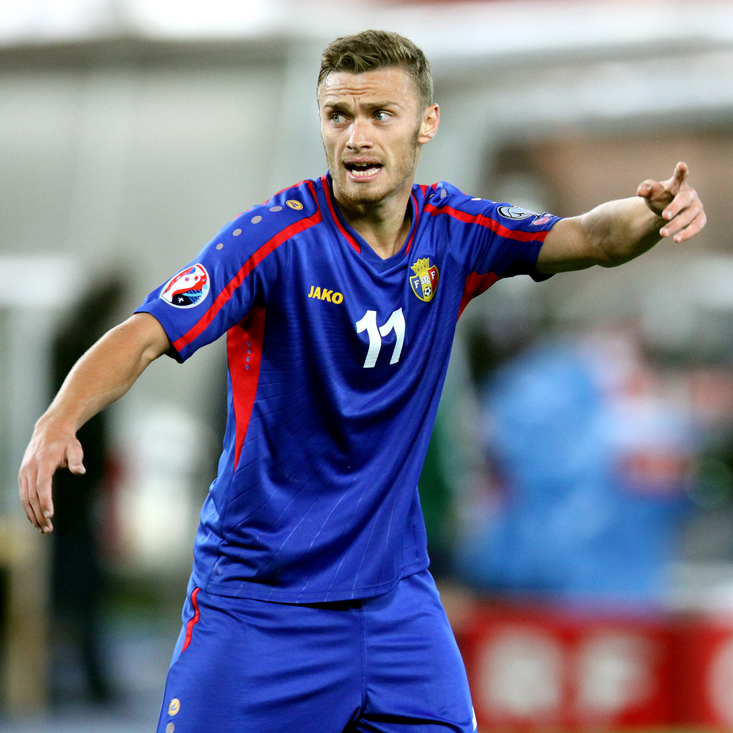 UEFA Euro 2016 qualifying, Group G – Austria national football team (red shirts) vs. Moldova national football team (blue shirts) on 2015-09-05 in Ernst-Happel-Stadion, Vienna: The photo shows Nicolae Milinceanu